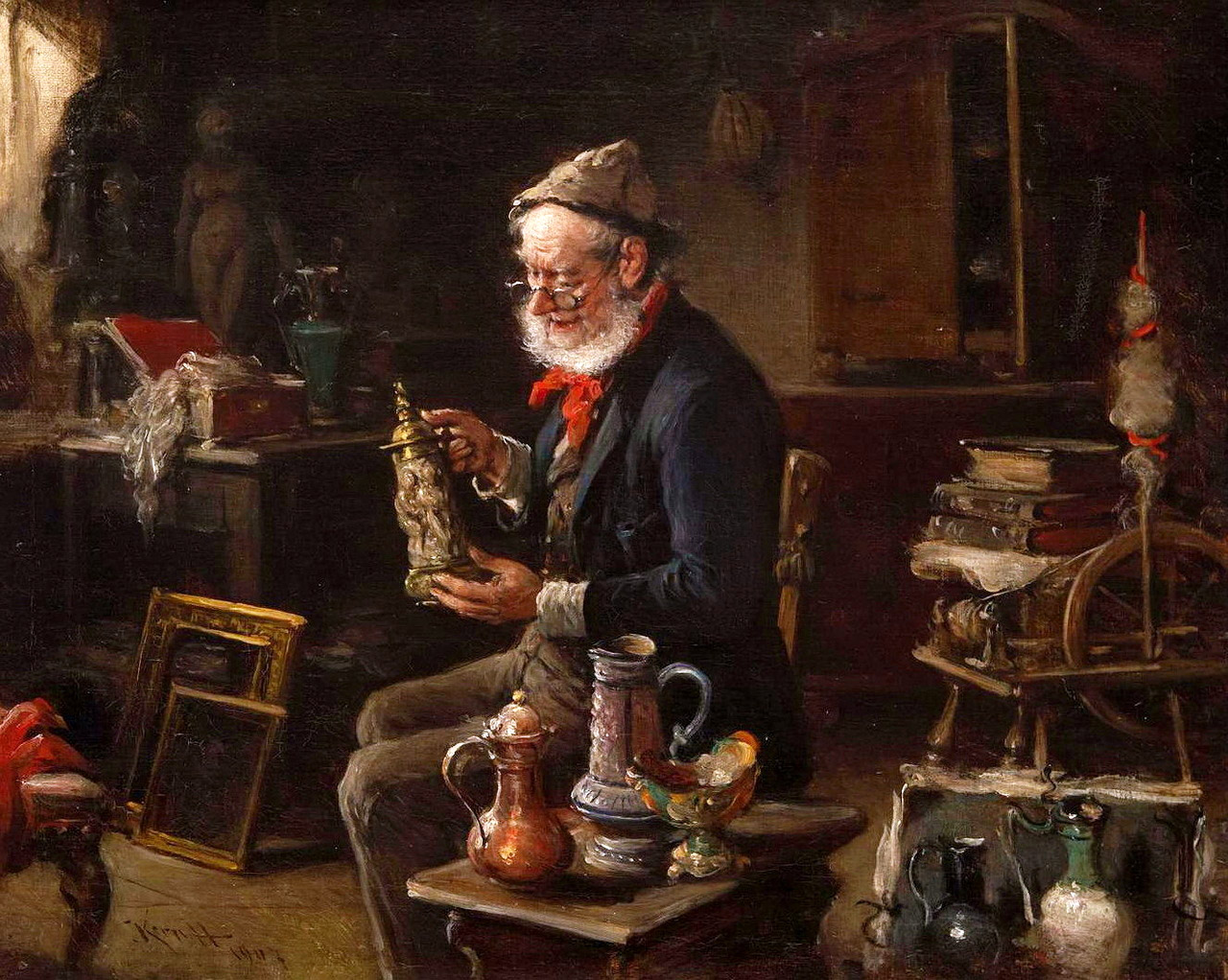 The Old Antiquarian Hermann Kern - 1907